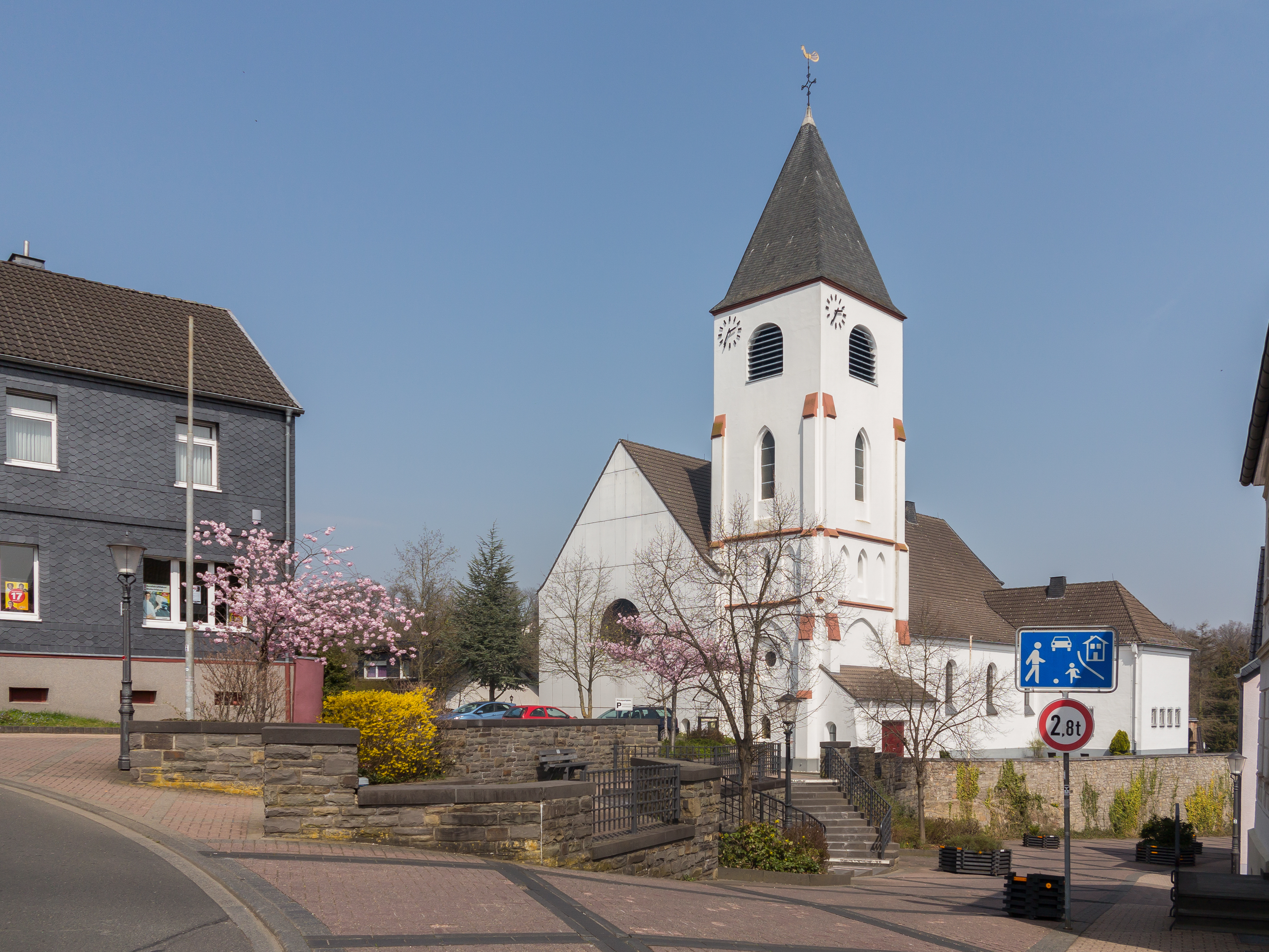 Kall, church: Kirche Sankt Nikolaus